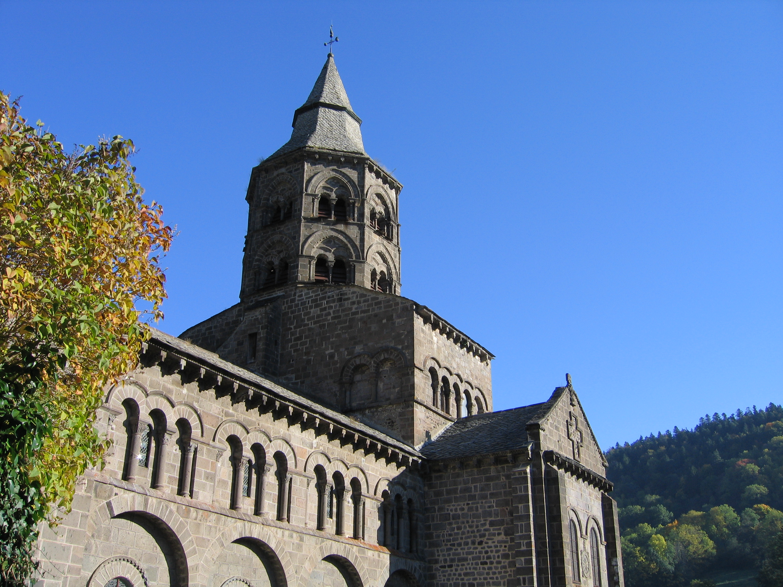 Basilica Our Lady of Orcival (Auvergne, France), 12–13th centuries.